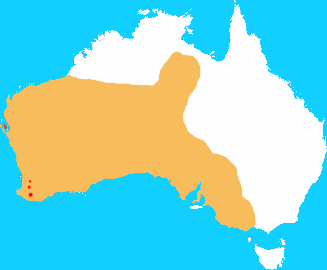 This is a map depicting the historic and current approximate distribution of the Brush Tailed Bettong (Bettongia pencillata). The historic range is shown in pale-orange, the current range in red.